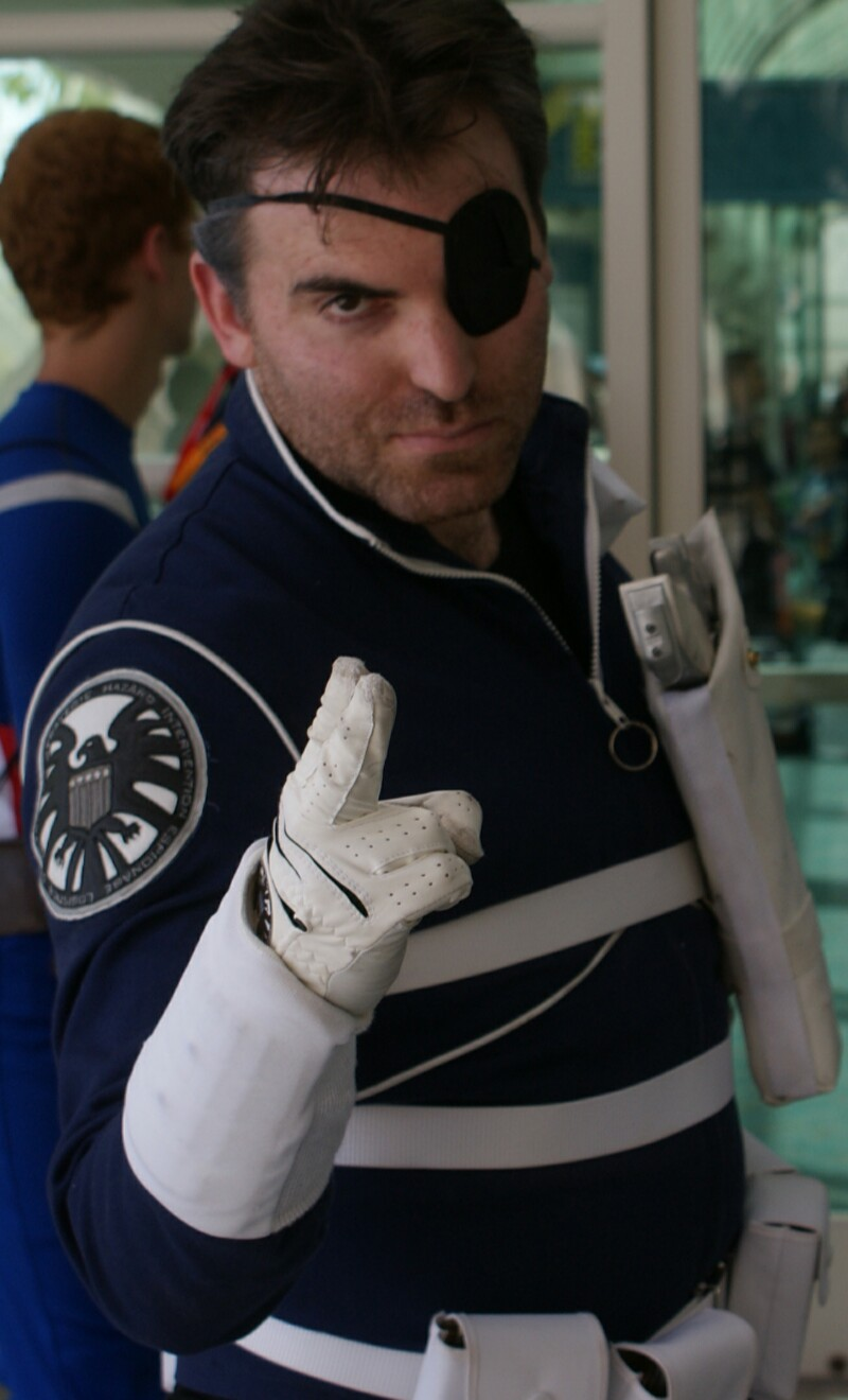 Cosplay at San Diego Comic-Con (SDCC 2012).